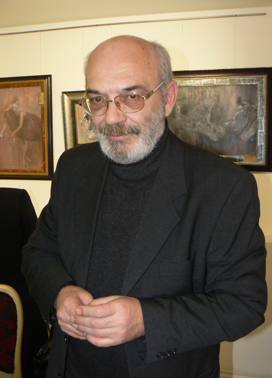 Bulgarian writer Hristo Karastoyanov on the presentation of the second edition of his book "The Spider" in Sofia